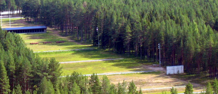 A shooting range in the outskirts of Boden, Sweden, seen from above. The range is in both civil and military use. Shooting is conducted towards the photographer, at targets placed at the foot of the mountain the photo was taken from. A sheltered shooting stand can be seen, as well as several other stands at different distances.